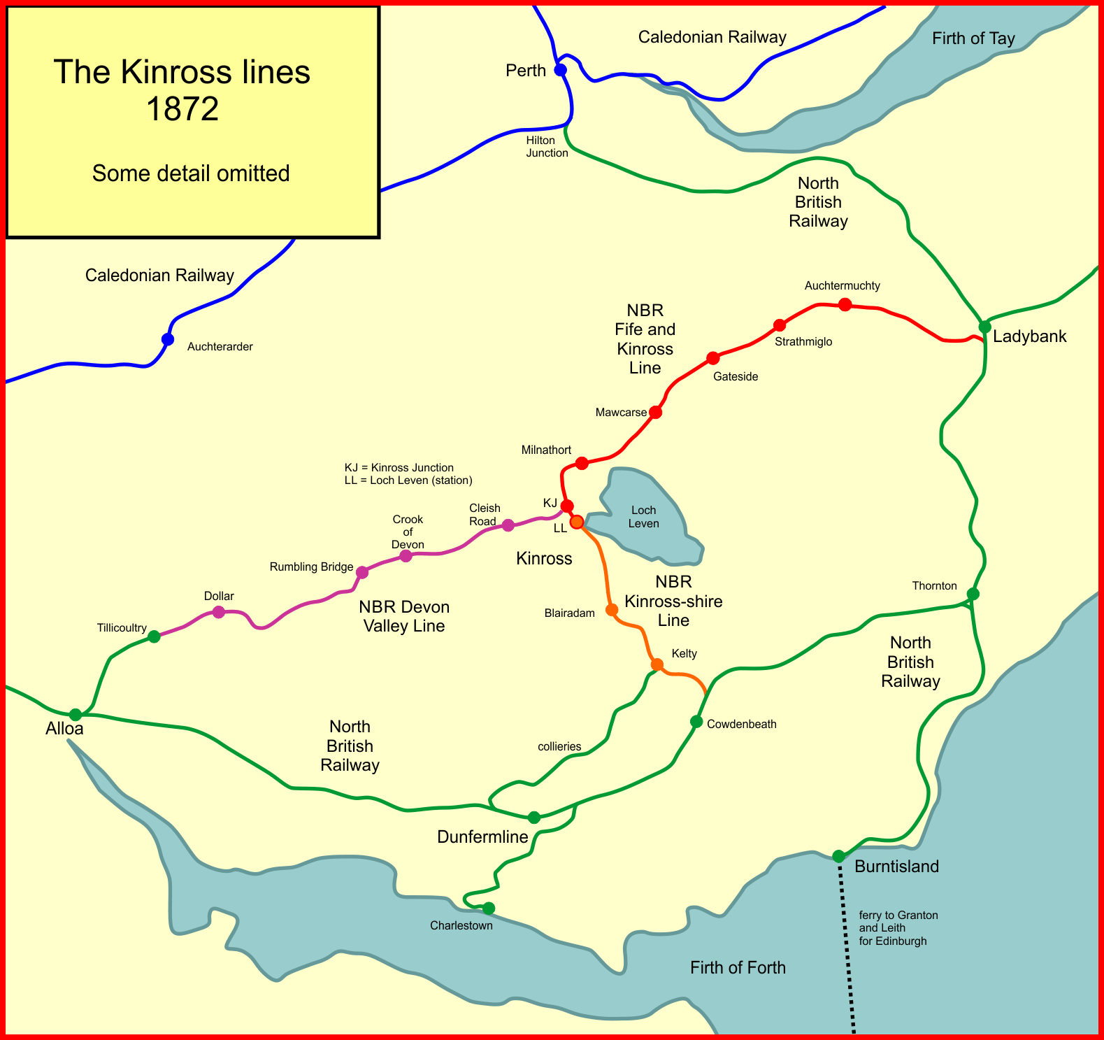 System map of the railway lines to Kinross, Scotland in 1872